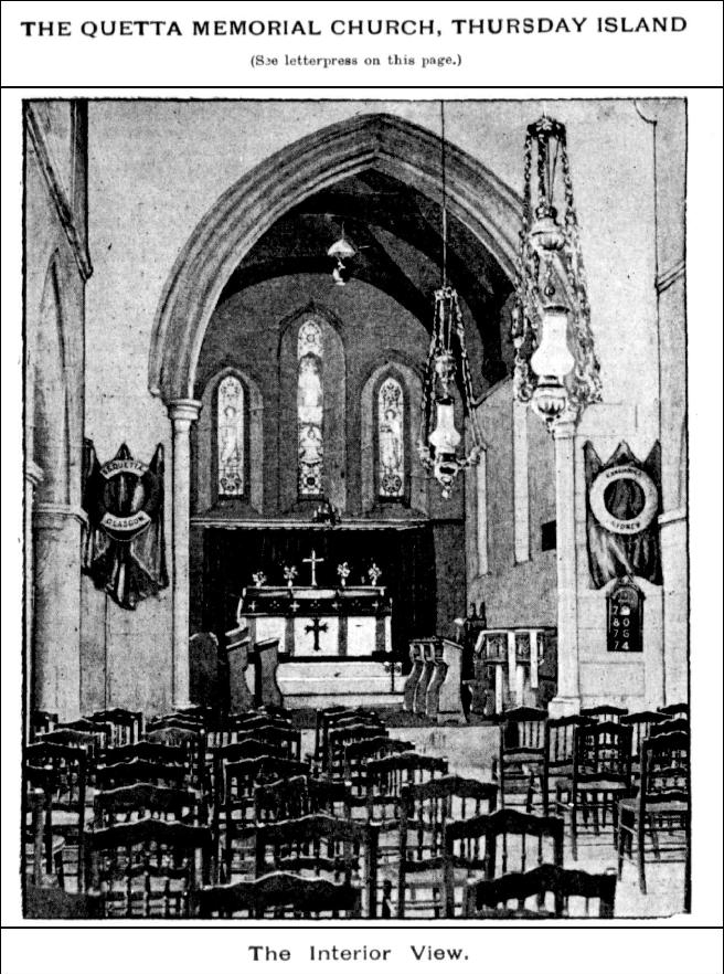 Interior of Quetta Memorial Church, Thursday Island, 1895. Also known as All Souls and St Bartholomew's Church